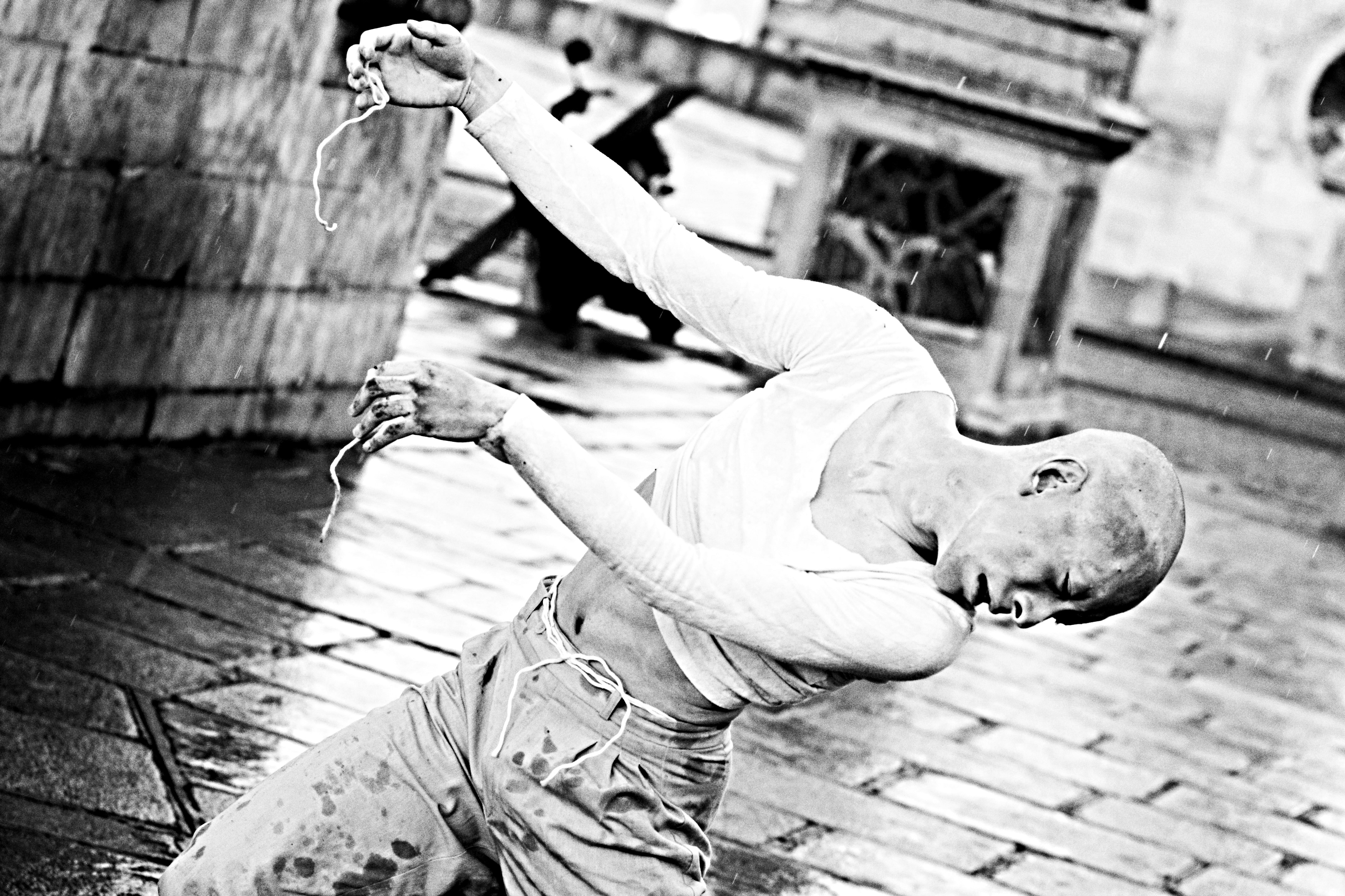 Gyohei Zaitsu performing Butoh.